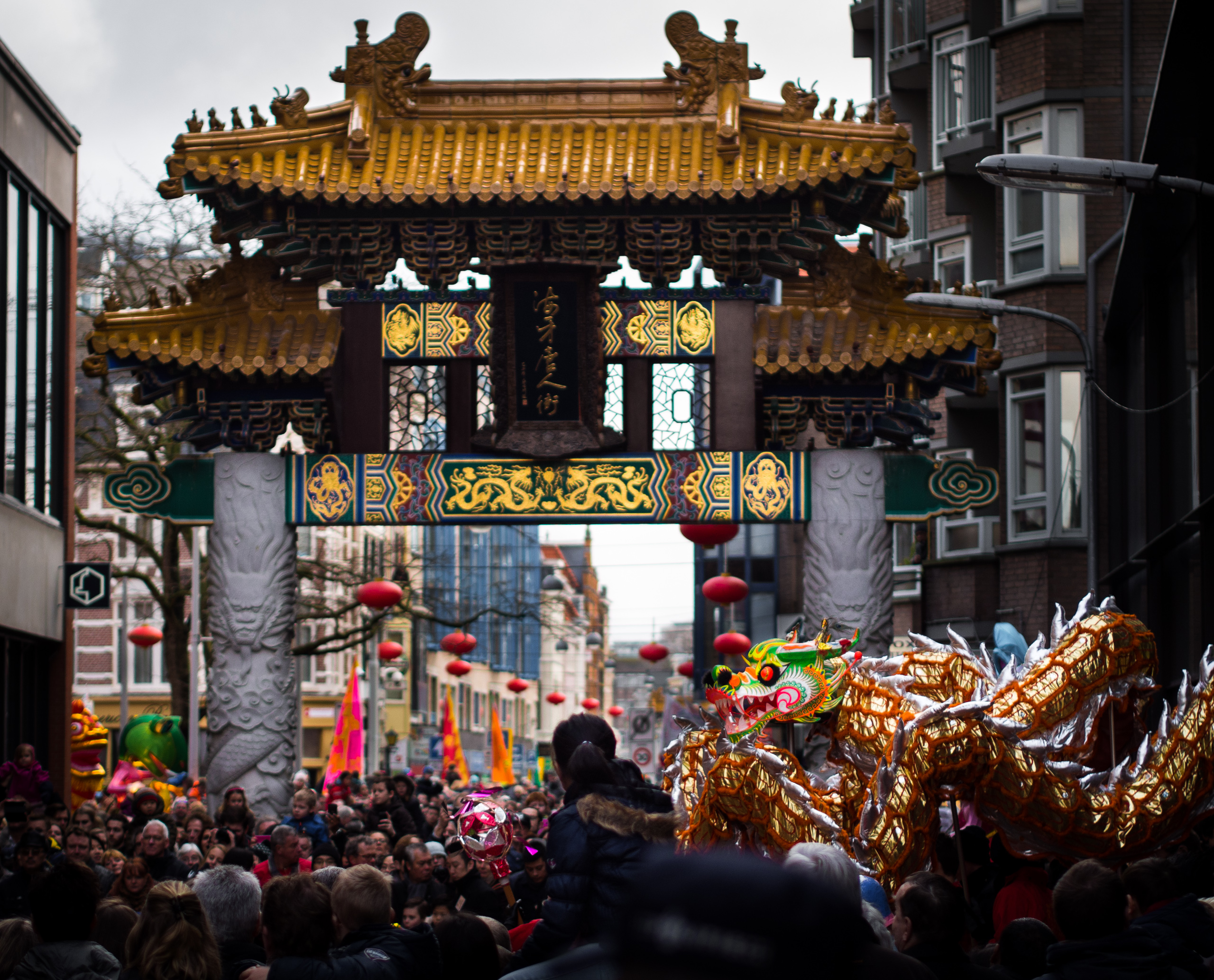 The 2015 Chinese New Year celebrations in The Hague were held on Saturday, 21 February at one of the entrances to The Hague's small Chinatown.